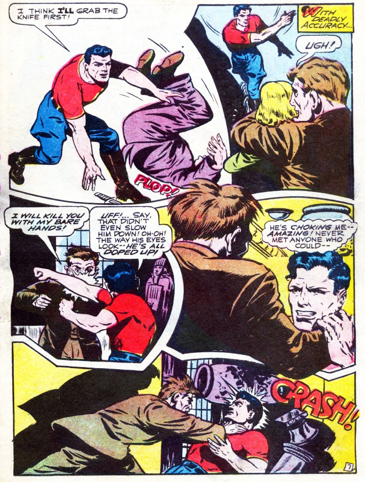 America's Best Comics #22, Page9, June, 1947